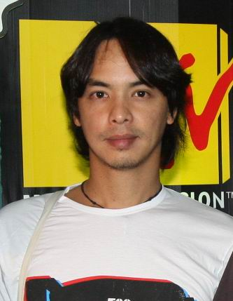 Ing Ashita Pramote at 6th Anniversary Party